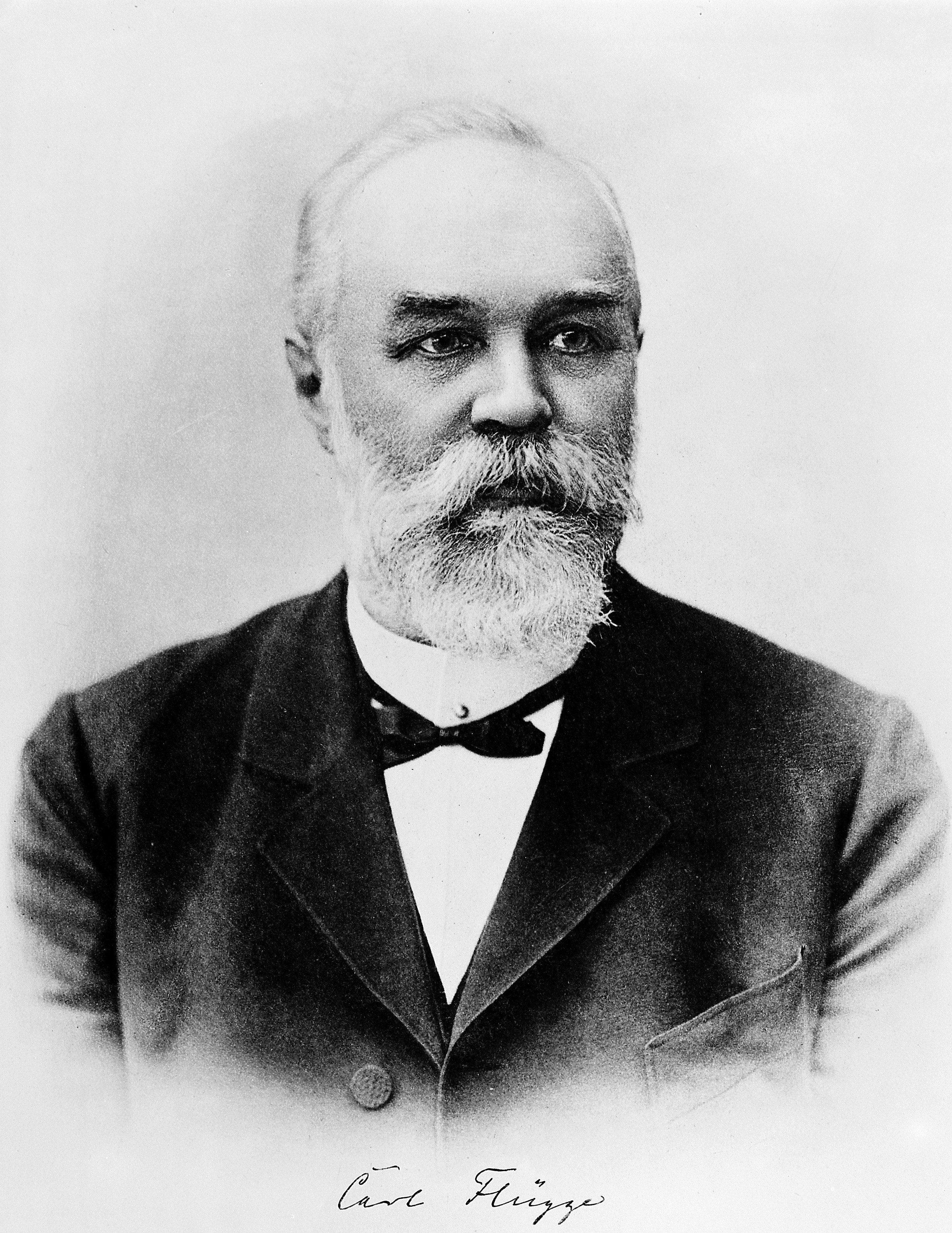 Portrait of C.G.F.W. Flugge, professor at Breslau